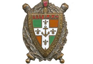 Regimental badge of the 11th Coloniale Artillery Regiment.